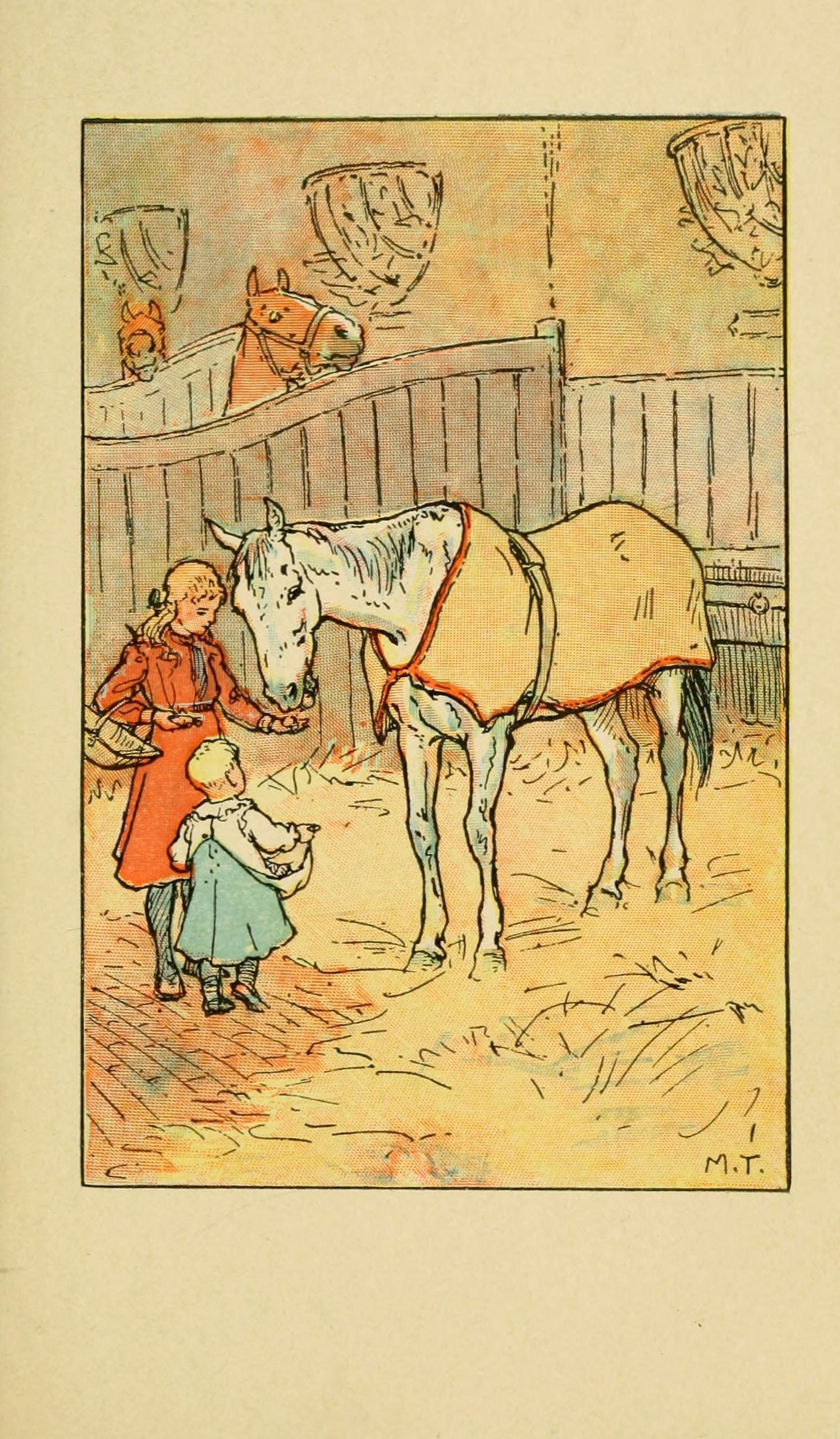 A horse book / by Mary Tourtel.